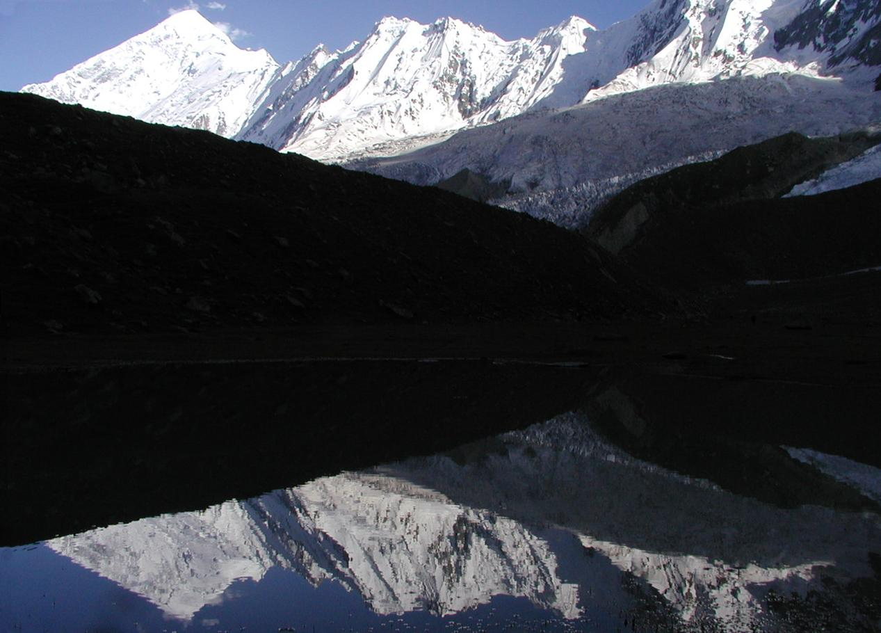 Reflection of Diran peak (left, 7,257m) and Rakaposhi (right, 7,788m, peak not visible) from Tagafari base camp, Northern Areas of Pakistan.